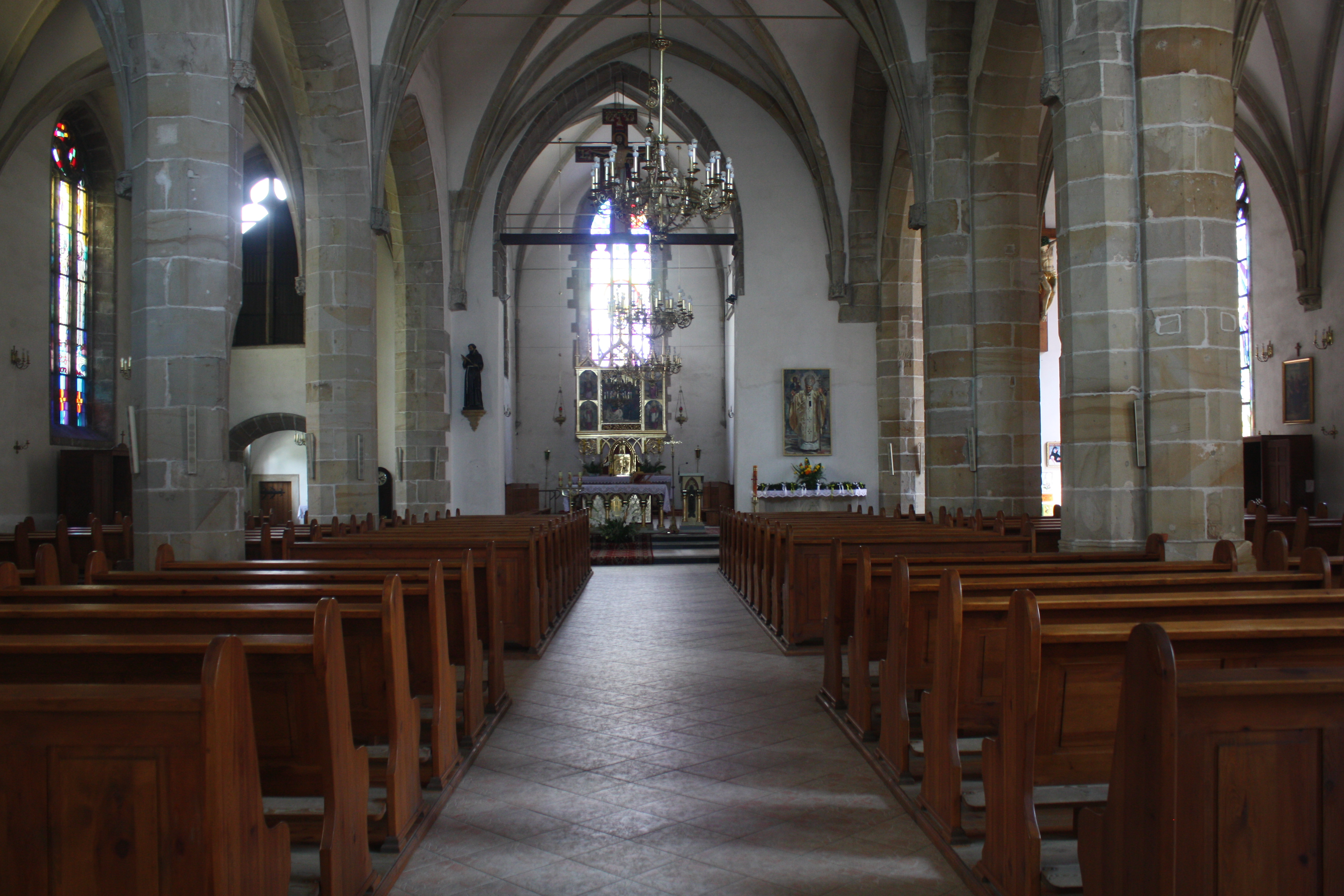 This photo of Lower Silesian Voivodeship was taken during Wikiexpedition 2013 set up by Wikimedia Polska Association. You can see all photographs in category Wikiekspedycja 2013. English | Polski | +/−